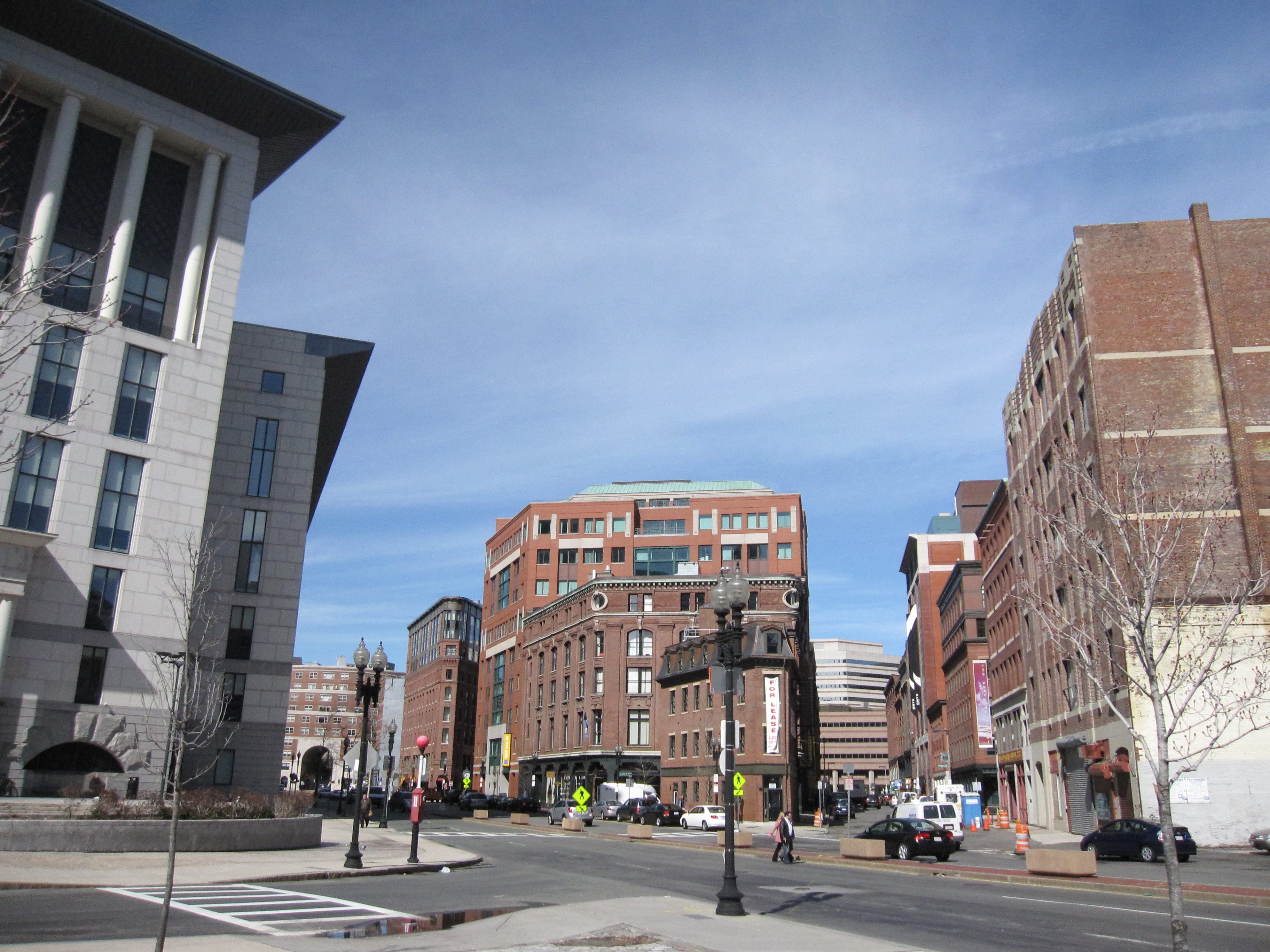 Boston, Massachusetts, March 2010